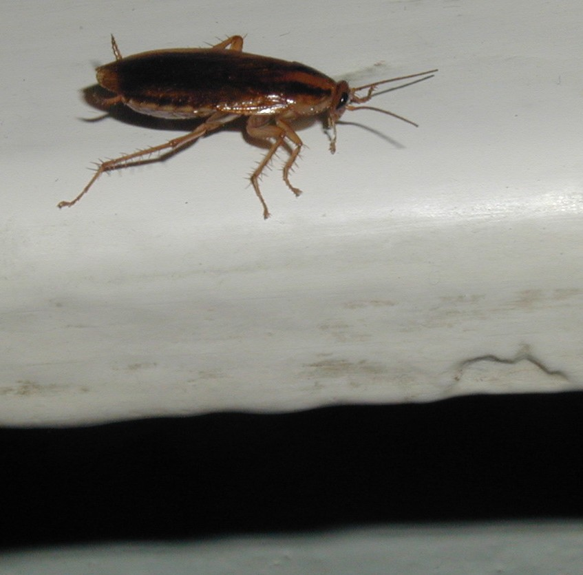 personal picture moscow 2005